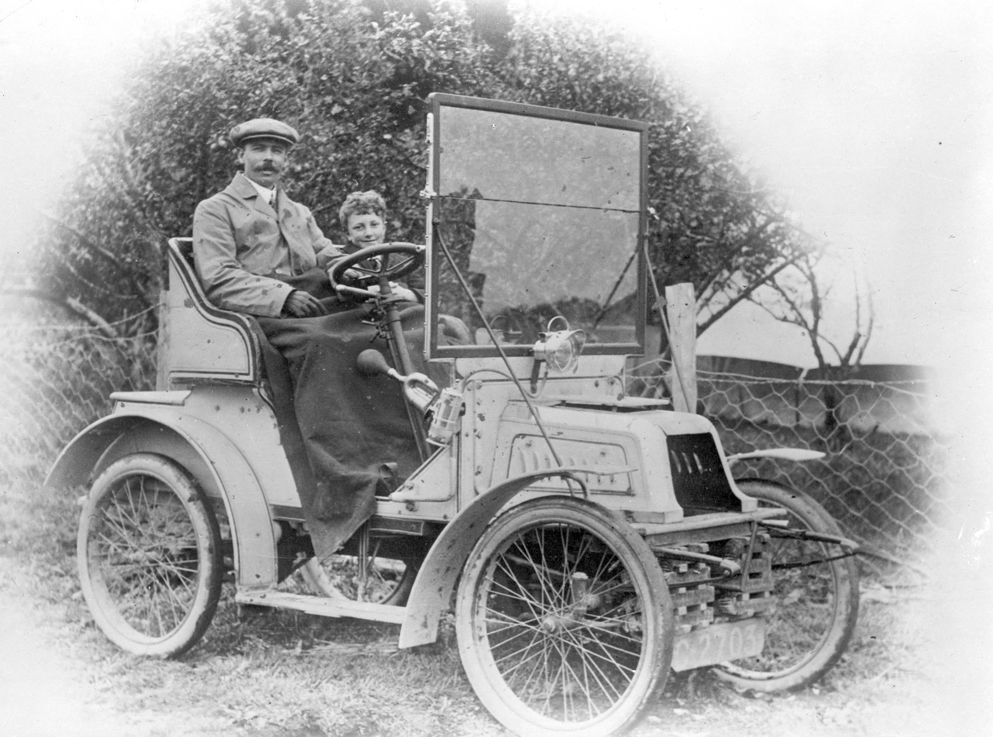 Cecil Walkden Wood in his third home-built car, photographed circa 1910. The coachwork is by wheelwright and coach builder John James Grandi. The passenger is Wood's son, also named Cecil. Photographer unidentified. Probably photographed in Wood's home town of Timaru.